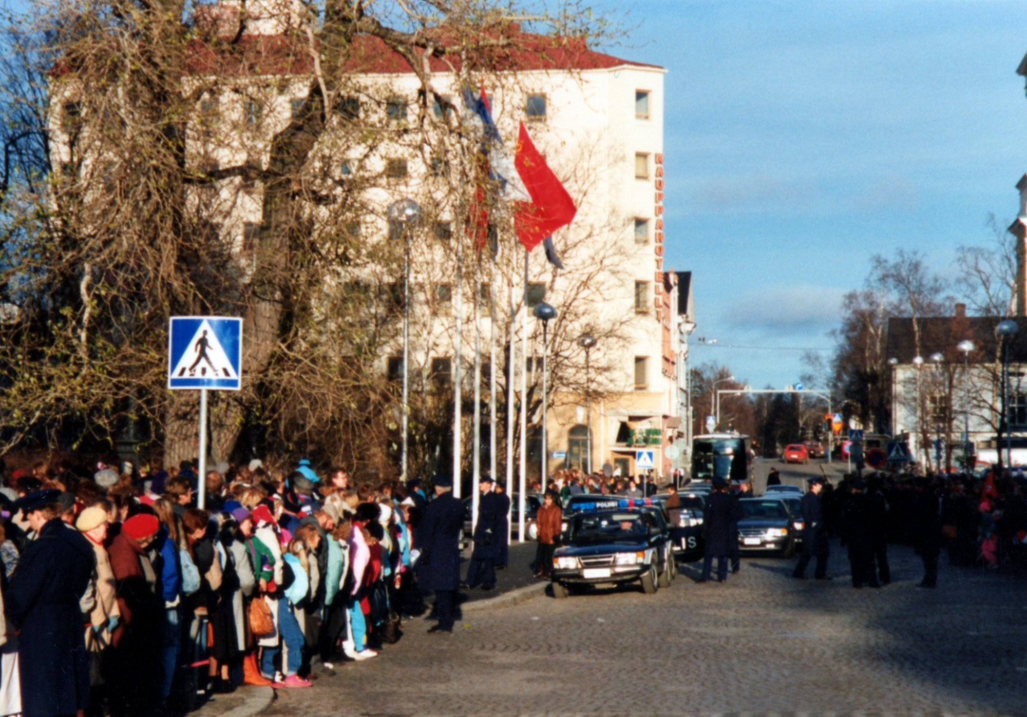 People waiting for Sovjet leader Mikhail Gorbachev in Oulu in October, 1989.